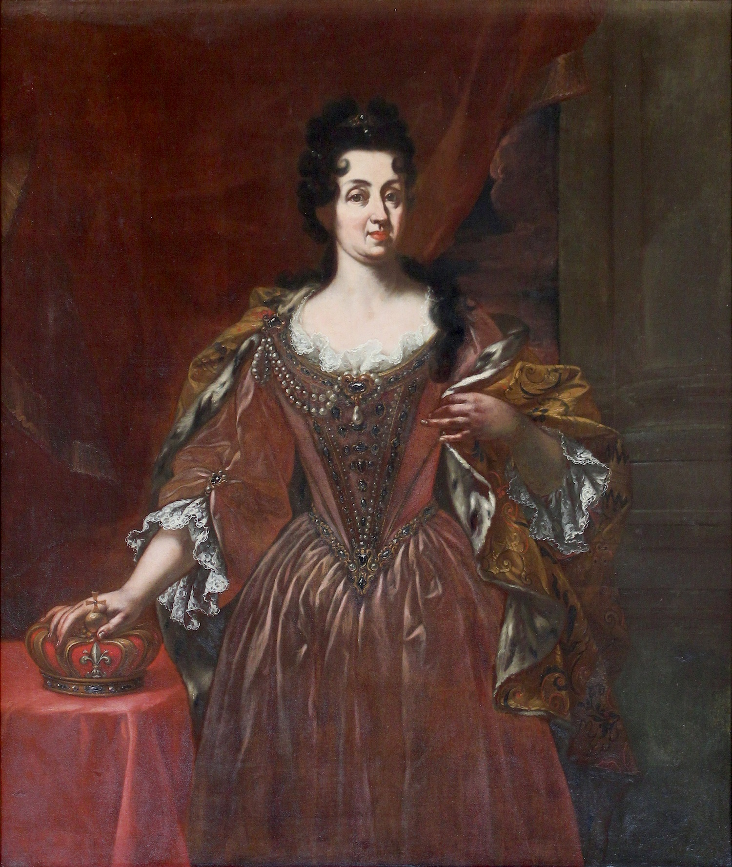 The portrait of Marguerite Louise d'Orléans, wife to Cosimo III de' Medici, Grand Duke of Tuscany, is part of the so-called "serie aulica" (or "of the most serene princes"), a collection of portraits of the most important members of the House of Medici. The work entered into the Uffizi Gallery together with that one of her daughter-in-law, Violante Beatrice of Bavaria, on 12 June 1723. The artist is not known, but the portrait planning and modus operandi have been recognized strictly close to that one of Violante Beatrice, for which the name of the painter Giovanni Gaetano Gabbiani is documented. It seems that we should attribute him all the last portraits of the "serie aulica", similar in execution.